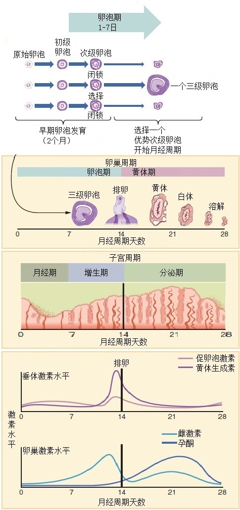 Illustration from Anatomy & Physiology, Connexions Web site. Jun 19, 2013.